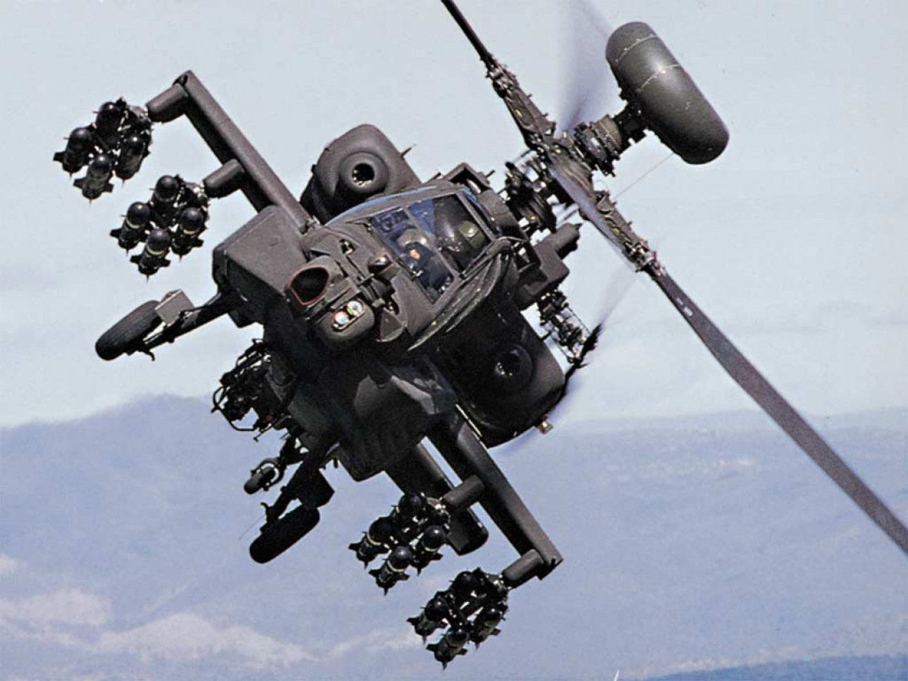 Apache helicopter in flight.